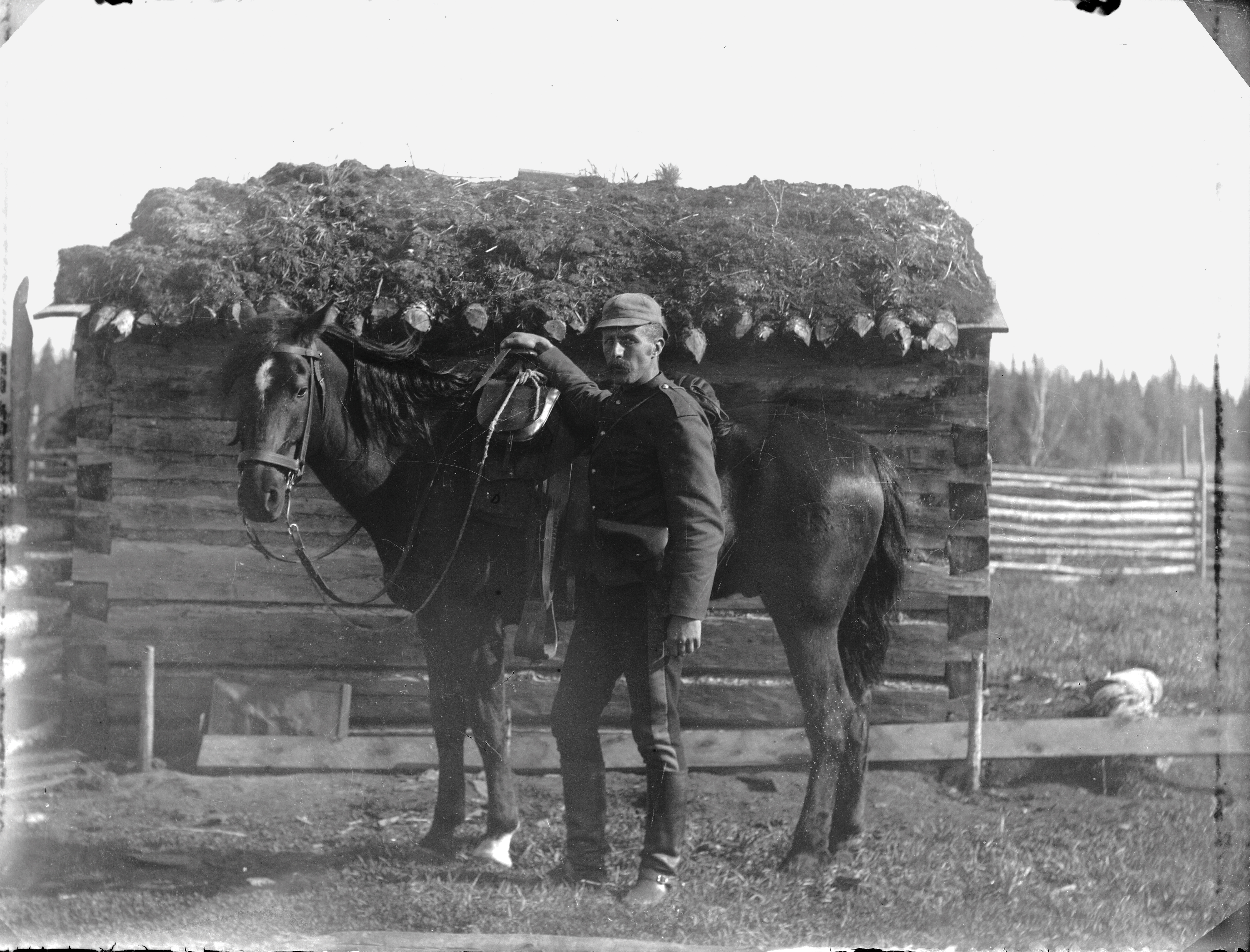 Brebner homestead, ca. 1900. From the Robert Brebner fonds, PR2009.0499/85.